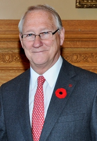 U.S. Consul General meets with Mayor of Montreal and sign the City's Guest Book